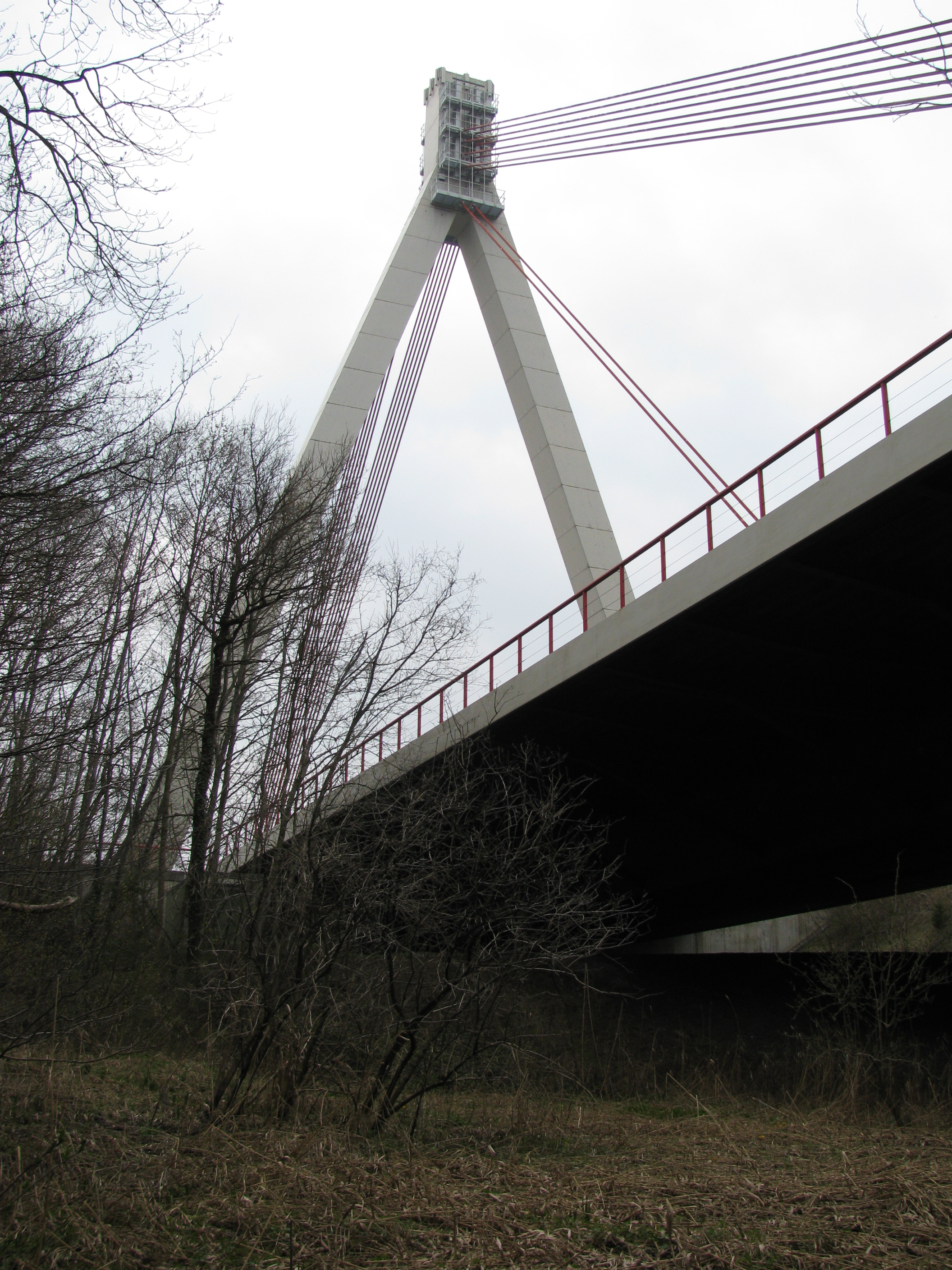 Germany - Baden-Württemberg - district Ravensburg - Wangen im Allgäu: pillars of viaduct “Obere Argen”